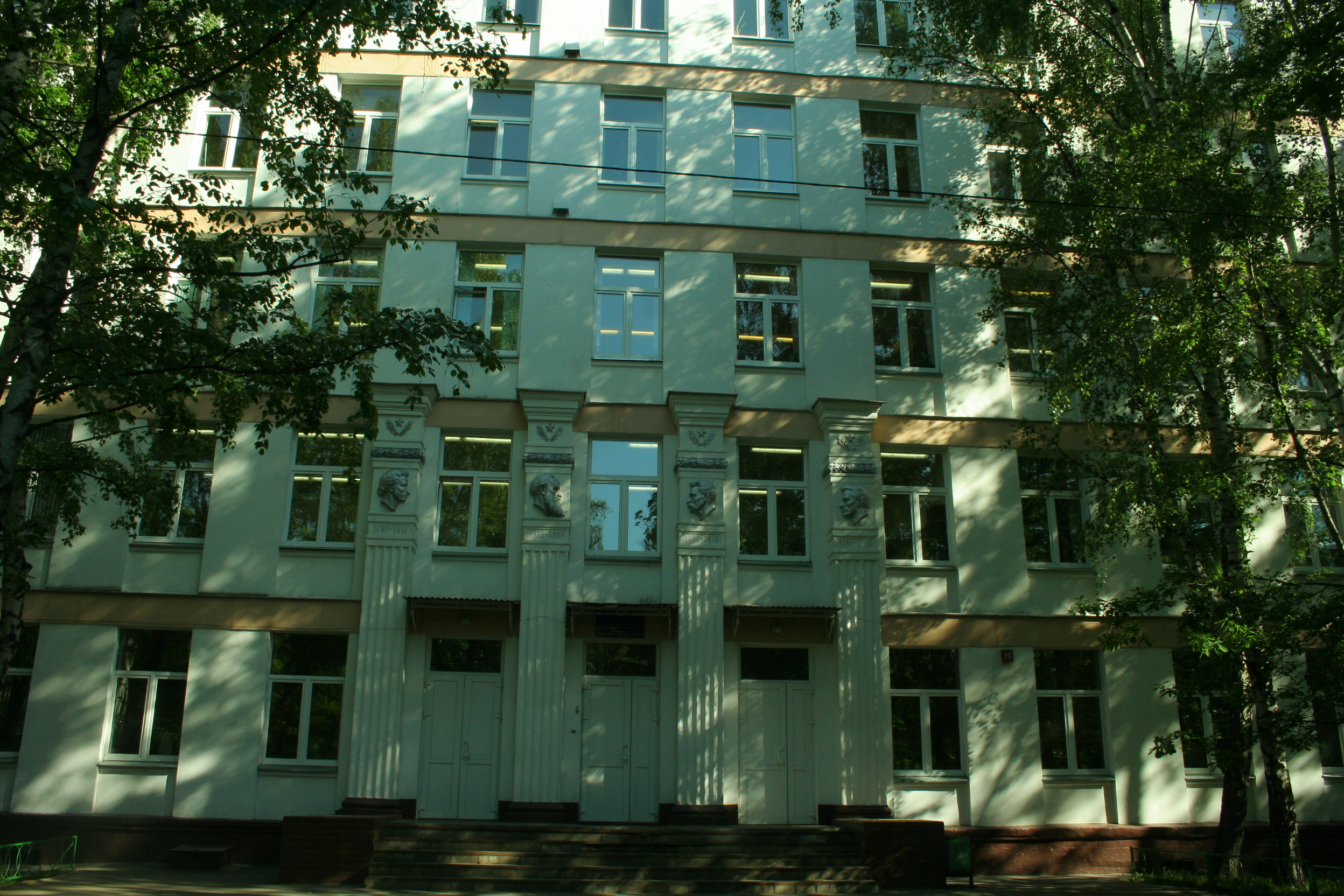 School 1210, Moscow, Russia (former English school no. 34). The school was conceived by the late Igor Kurchatov as a physics and math school. Kurchatov died before the school was completed. In the 1970s and 1980s it was a nice school with advanced English studies and Jewish staff.